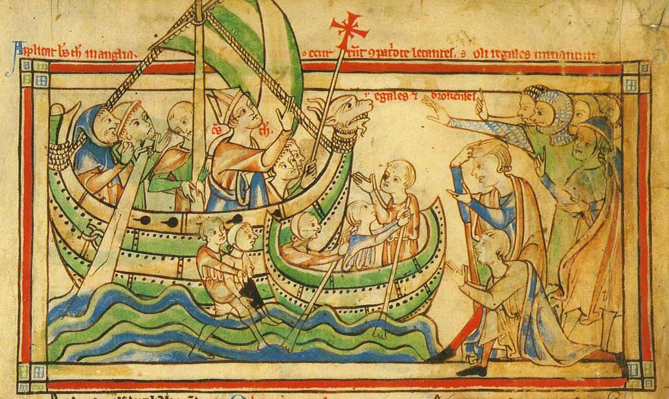 Becket sails to England. The passengers are taken to land in boats, or lifted ashore. The common people show their respects, but knights warn him to stay away.